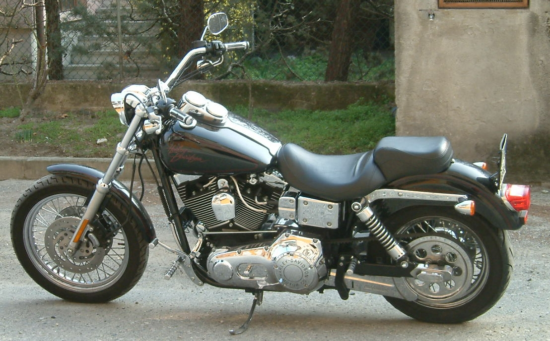 Harley Davidson Low Rider 1450